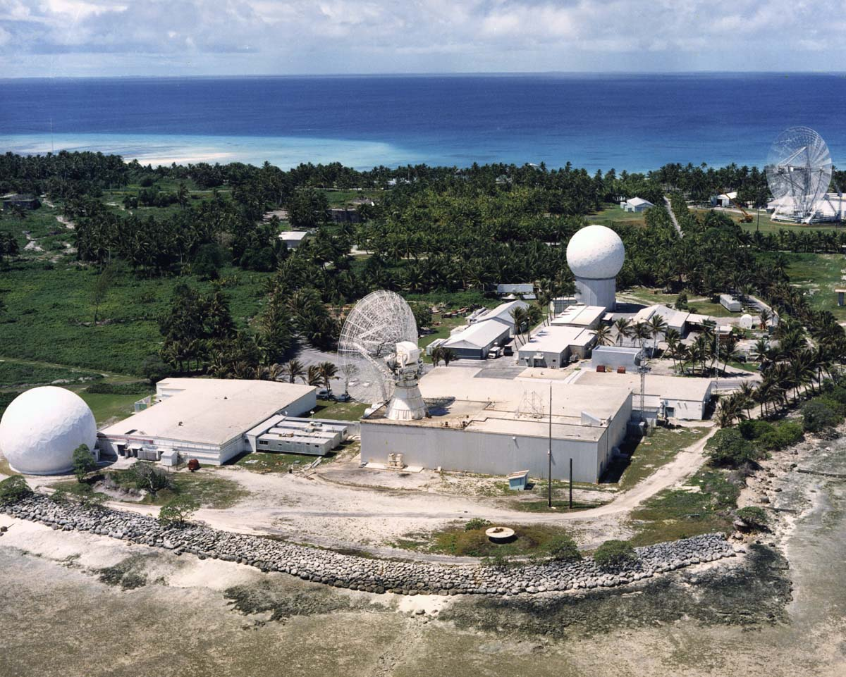 Sensors at the Ronald Reagan Ballistic Missile Defense Test Site (RTS) at Kwajalein Atoll, Republic of the Marshall Islands, located 2,300 miles southwest of Hawaii, are controlled at the Ronald Reagan Test Ballistic Missile Defense Test Site Operations Center in Huntsville.